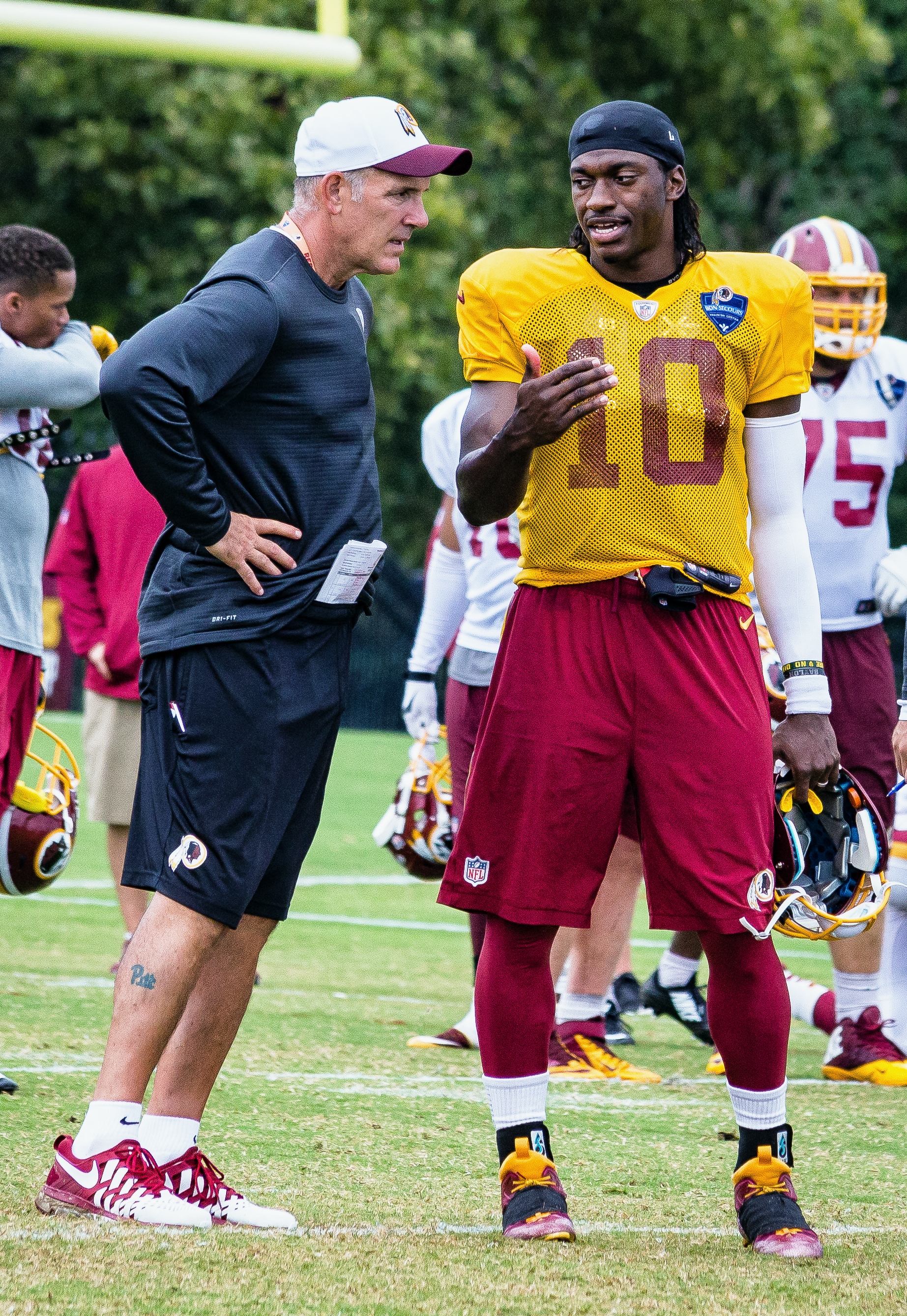 Matt Cavanaugh Skins quarterback coach and Robert Griffin III at RVA 2015 training camp